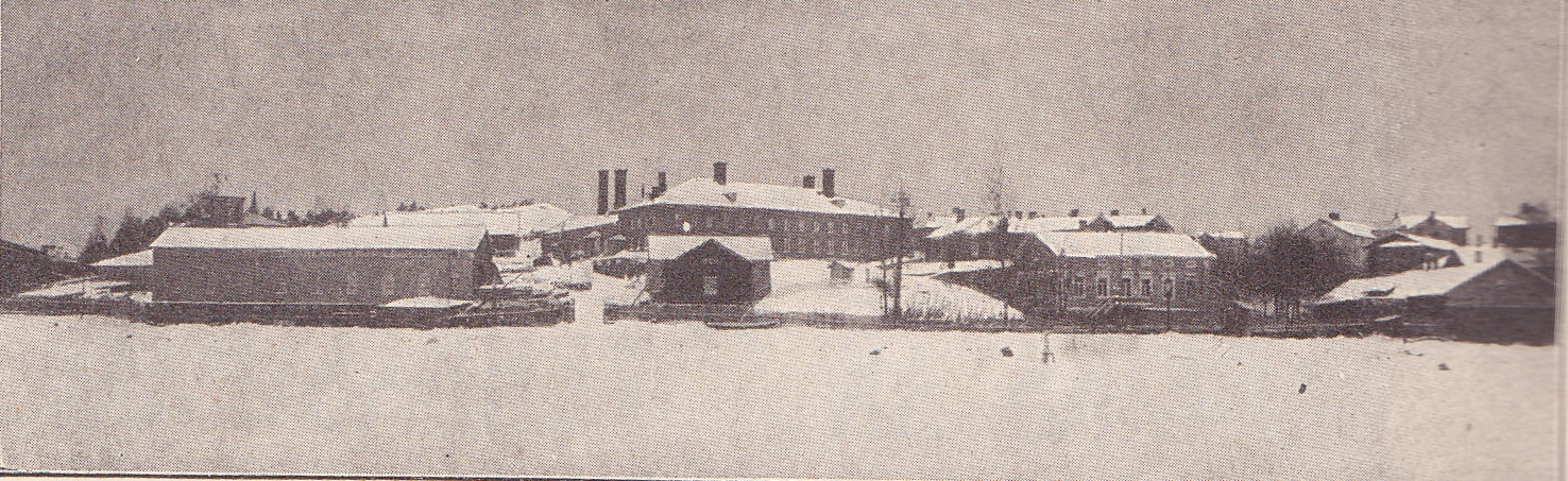 Wilh. Andstenin tehdas Oy factory